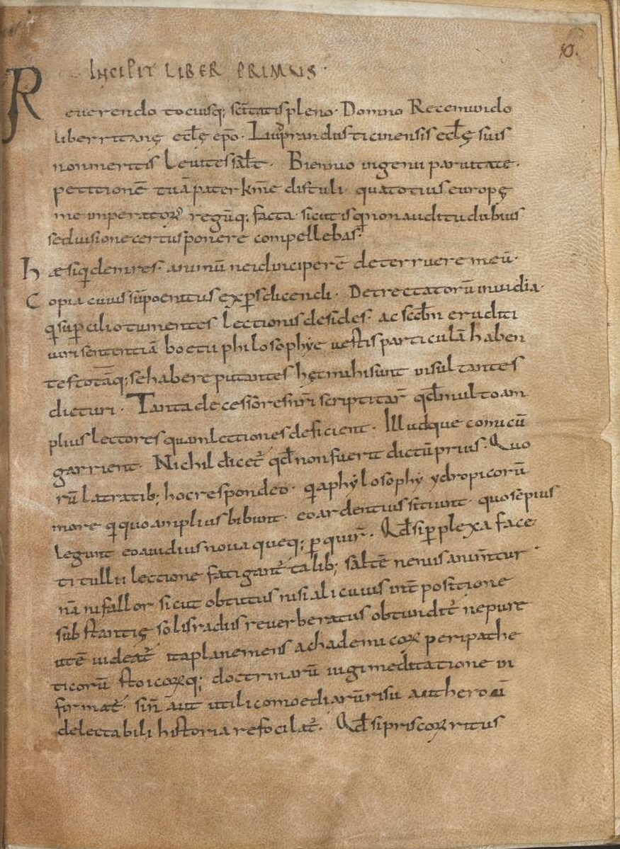 Liutprand, Antapodosis. Beginning of text Munich MS Clm 6388 f. 10r